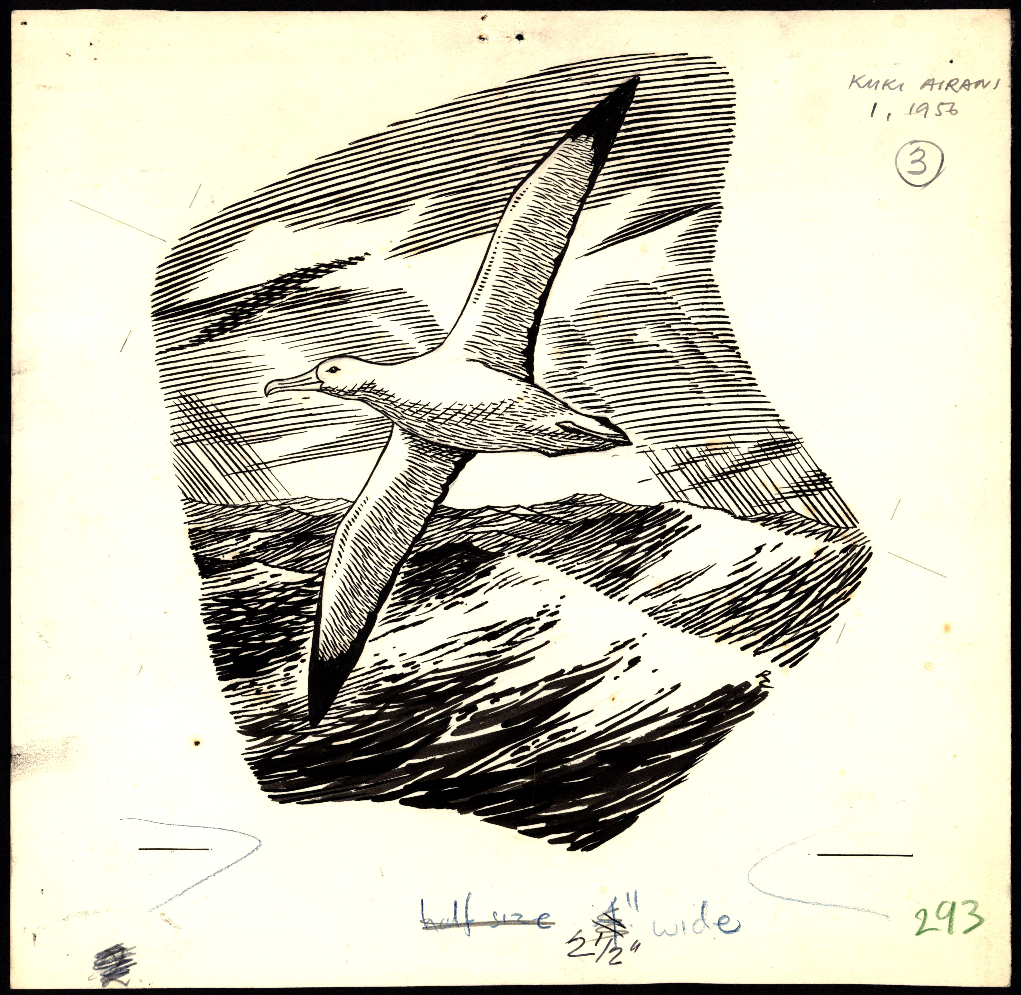 Vaiaso o le Gagana Samoa 2016 (Samoan Language Week) takes place between 29 May and 4 June. This special week provides an opportunity to celebrate and learn Gagana Samoa (Samoan Language) a dynamic, and rich language. The kaupapa for Gagana Samoa 2016 is “E felelei manu ae ma’au i o latou ofaga - Birds migrate to environments where they survive and thrive”. The sea bird image above is from a folder of original artworks produced for Samoan school publications. The first 2 readers for Samoan schools were printed in 1948. These were followed by publications relating to other Pacific Island nations. This record series (782), and series 6009, appear to comprise of artworks mainly for these publications. They were transferred to Archives New Zealand from the Department of Education. Archives Reference: AAAD 782 W2708 Box 21 Artist: unknown For further enquiries please For updates on our On This Day series and news from Archives New Zealand, follow us on Twitter Material from Archives New Zealand Caption information from the Ministry of Pacific Peoples